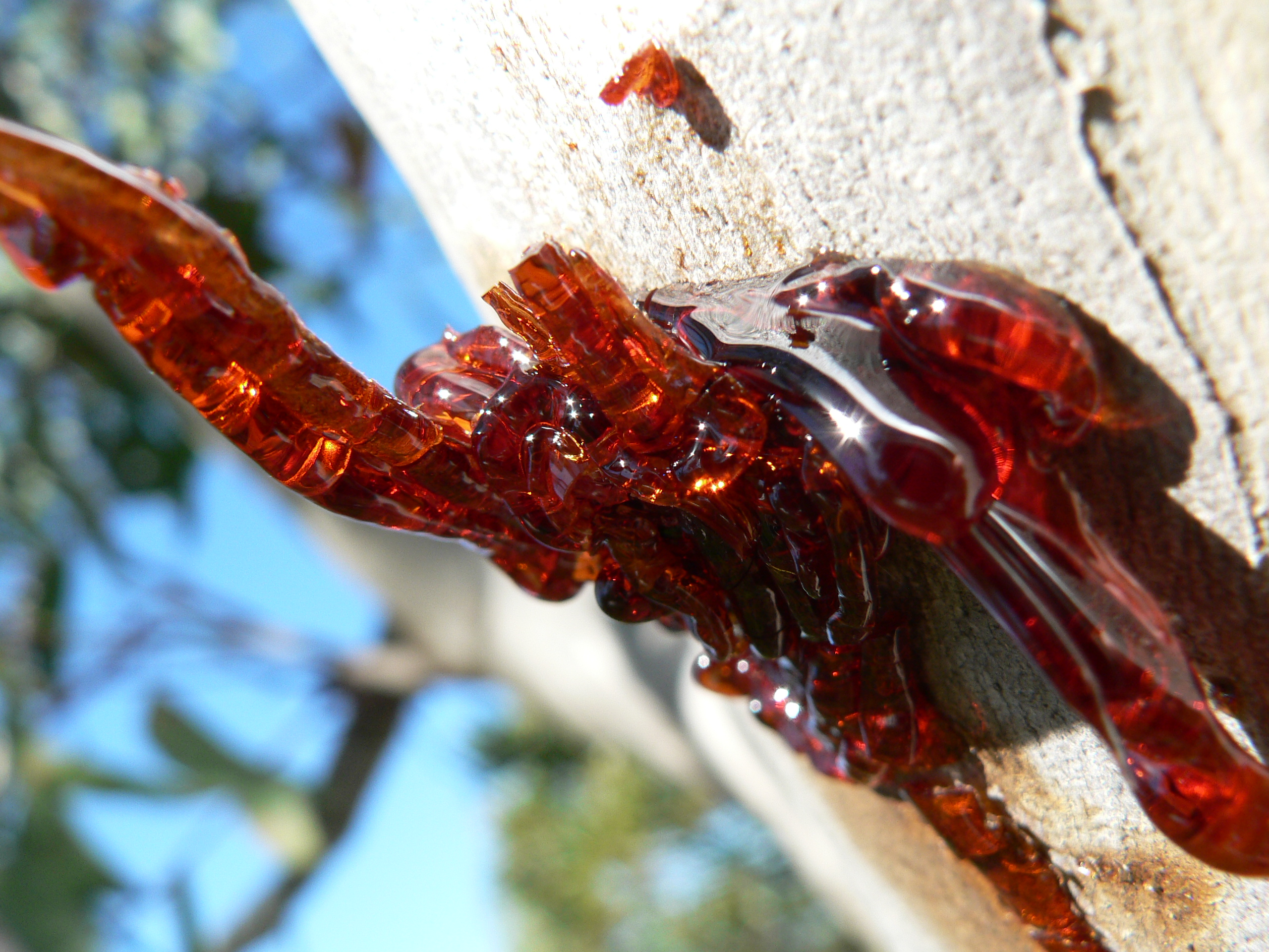 Bleeding Tree in Australia